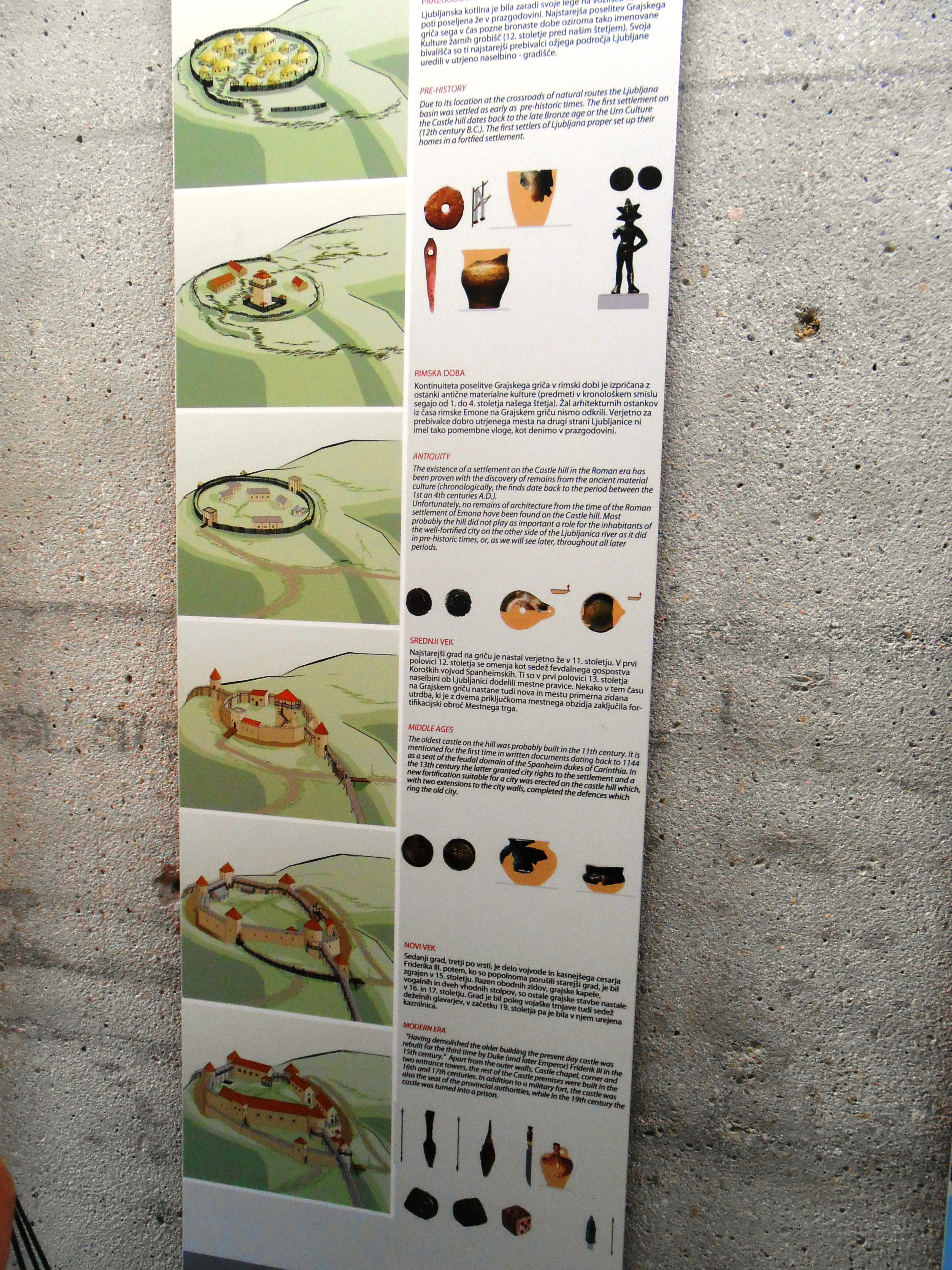 Ljubljana city over the centuries, Ljubljana, Slovenia